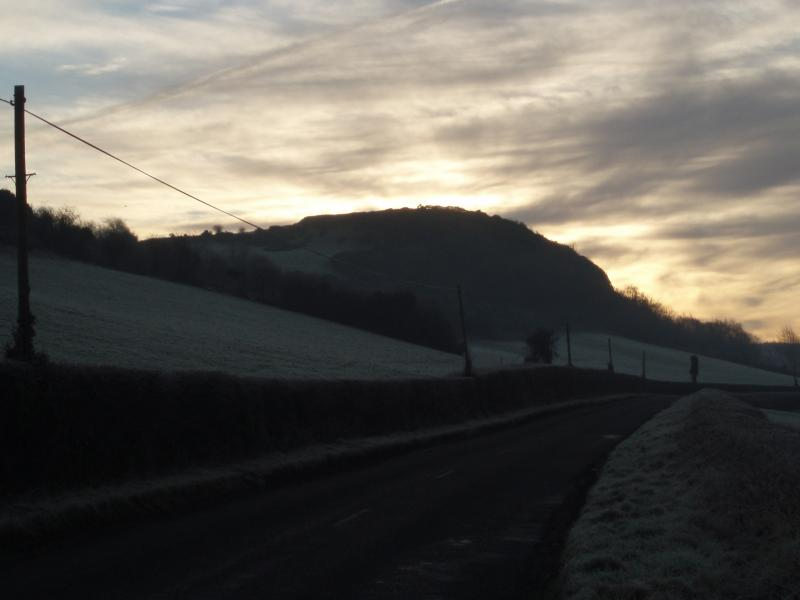 Gavigan own work 2007